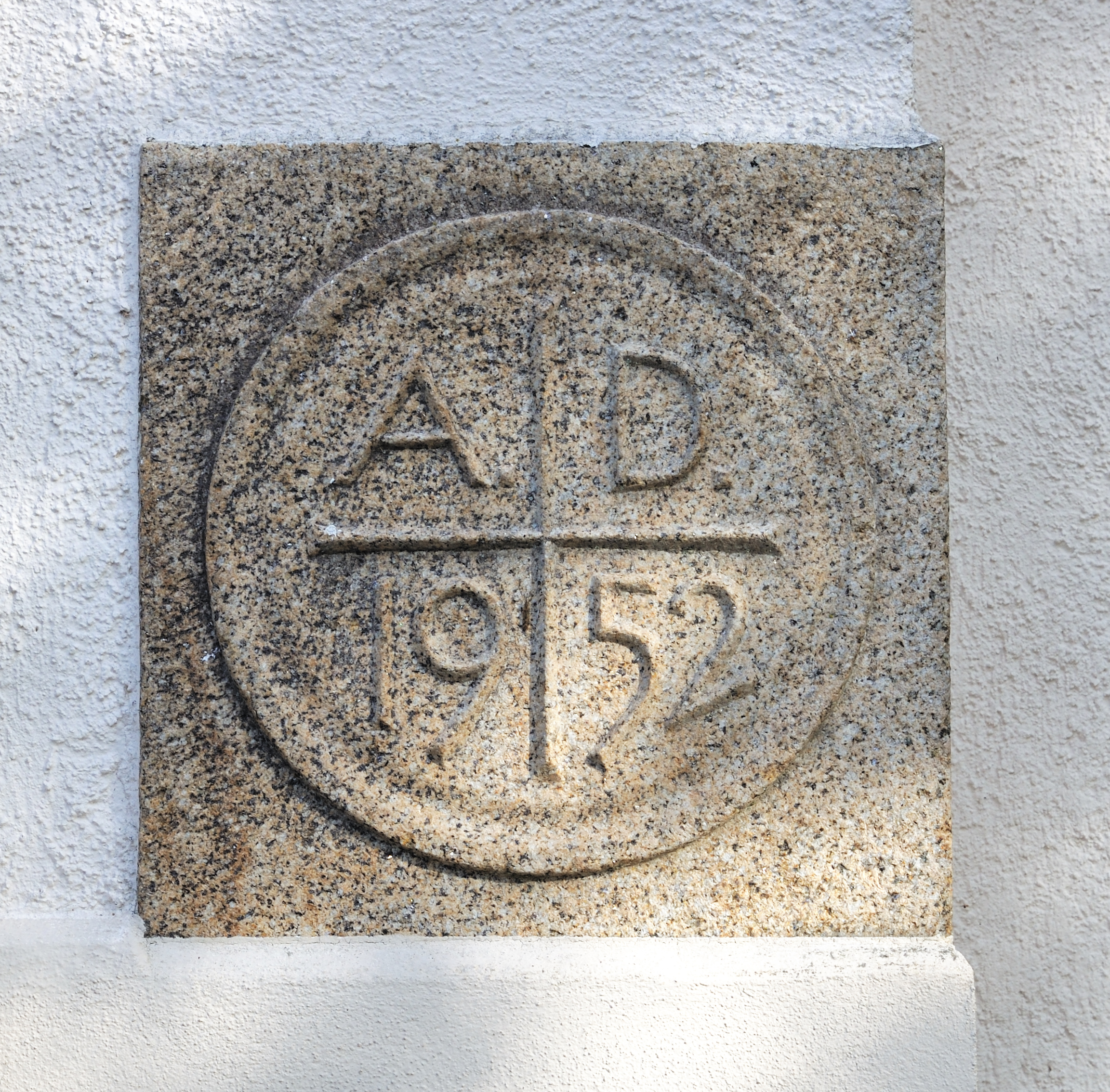 Muggenbrunn: Saint Cornelius Church